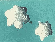 Snow pellet/Graupel